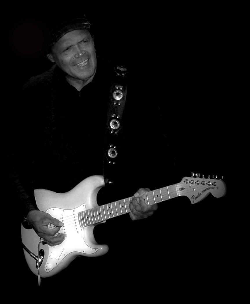 A picture of Bobby Tench taken by myself at a gig in London